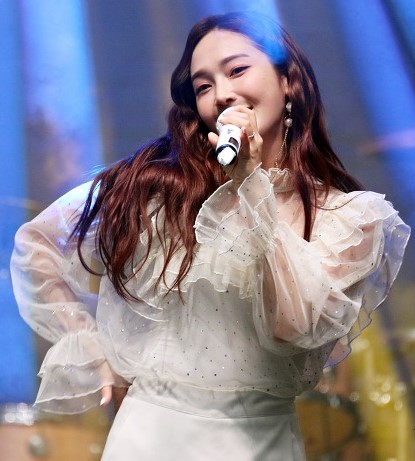 Jessica Jung at Open Concert in Singapore on July 1, 2017.